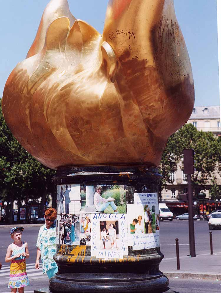 Unofficial Diana memorial in Paris, France. Photograph taken by Adrian Pingstone in July 2001 and released to the public domain.